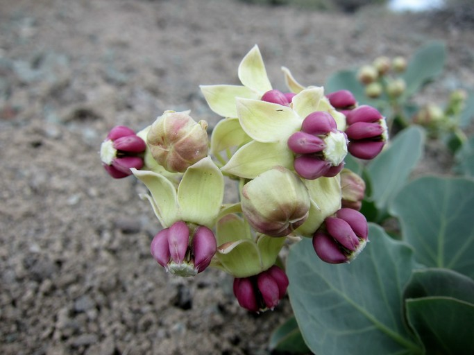 Asclepias cryptoceras, Eureka County, Nevada, USA. This photo is in the public domain and may be freely used for any purpose